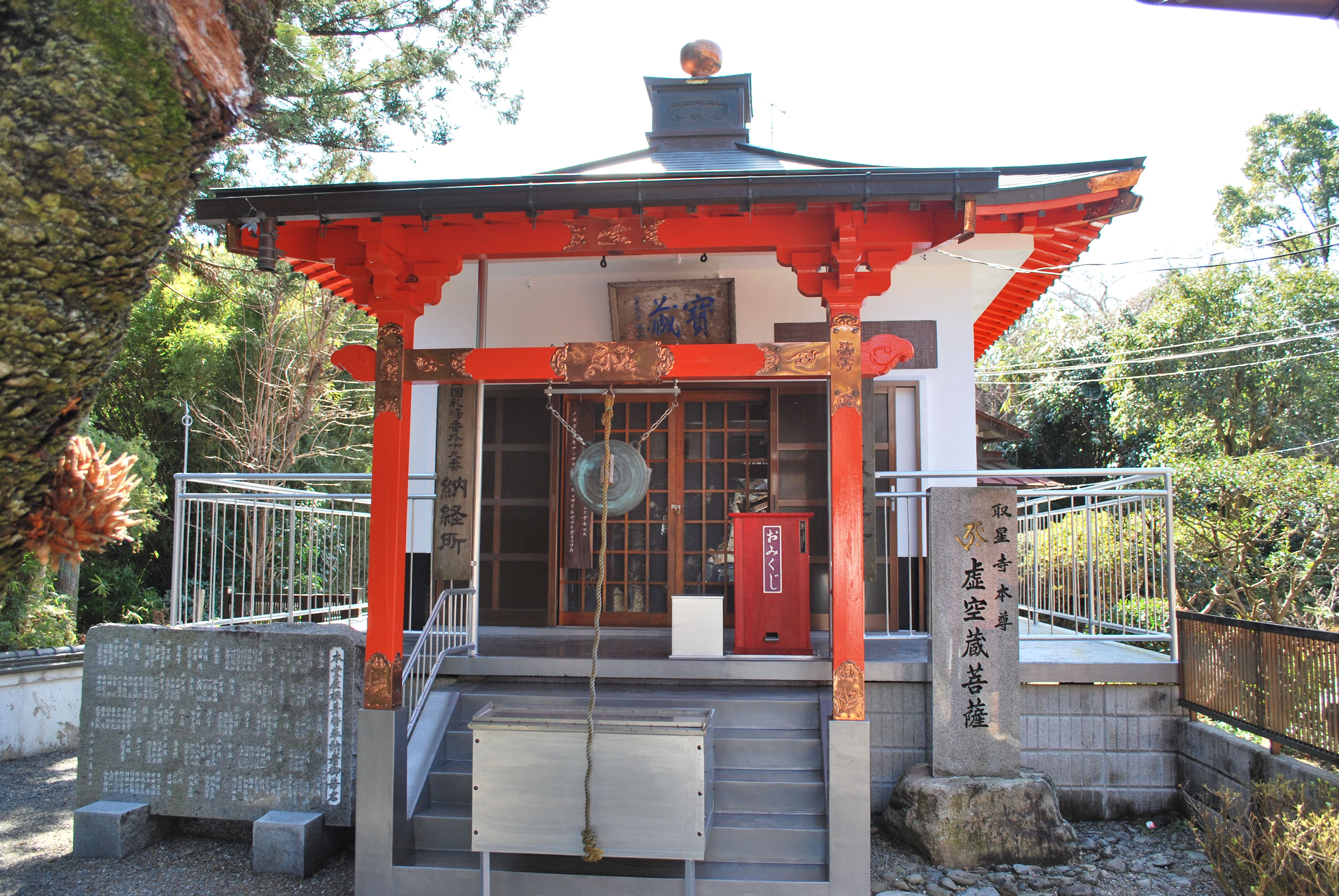 Main hall, Shushō-ji